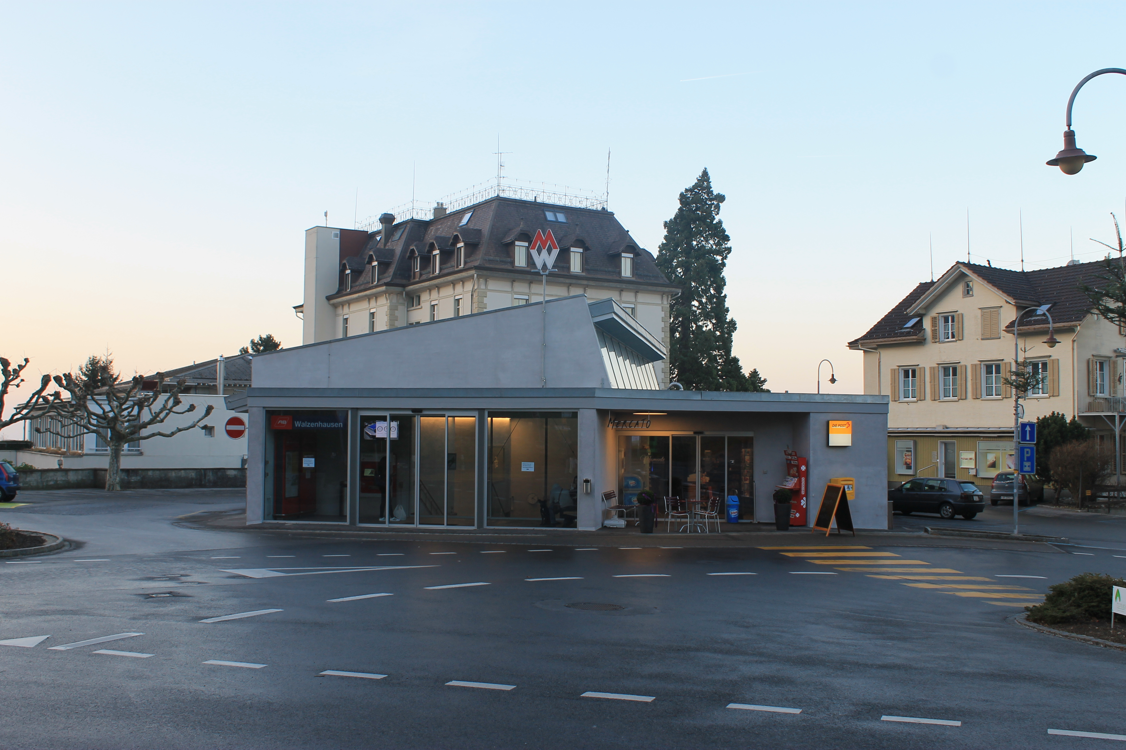 Railway station Walzenhausen (Switzerland), End point of the mountain railway car from Rheineck to Walzenhausen